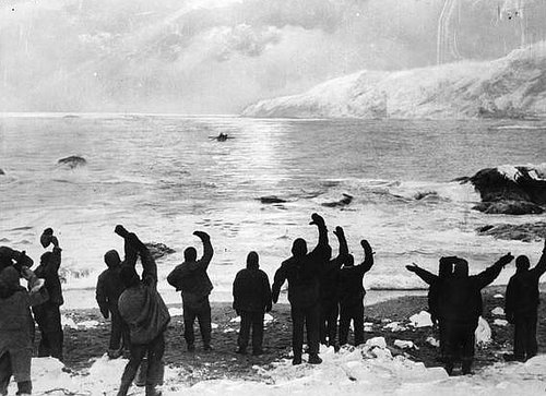 Ernest Shackleton leaves Elephant Island on the James Caird with five other members of the expedition, setting out to reach South Georgia Island 800 miles away. Twenty two men remain on Elephant Island, hopefully waiting. The ship James Caird was scratched out of the picture by the photographer.